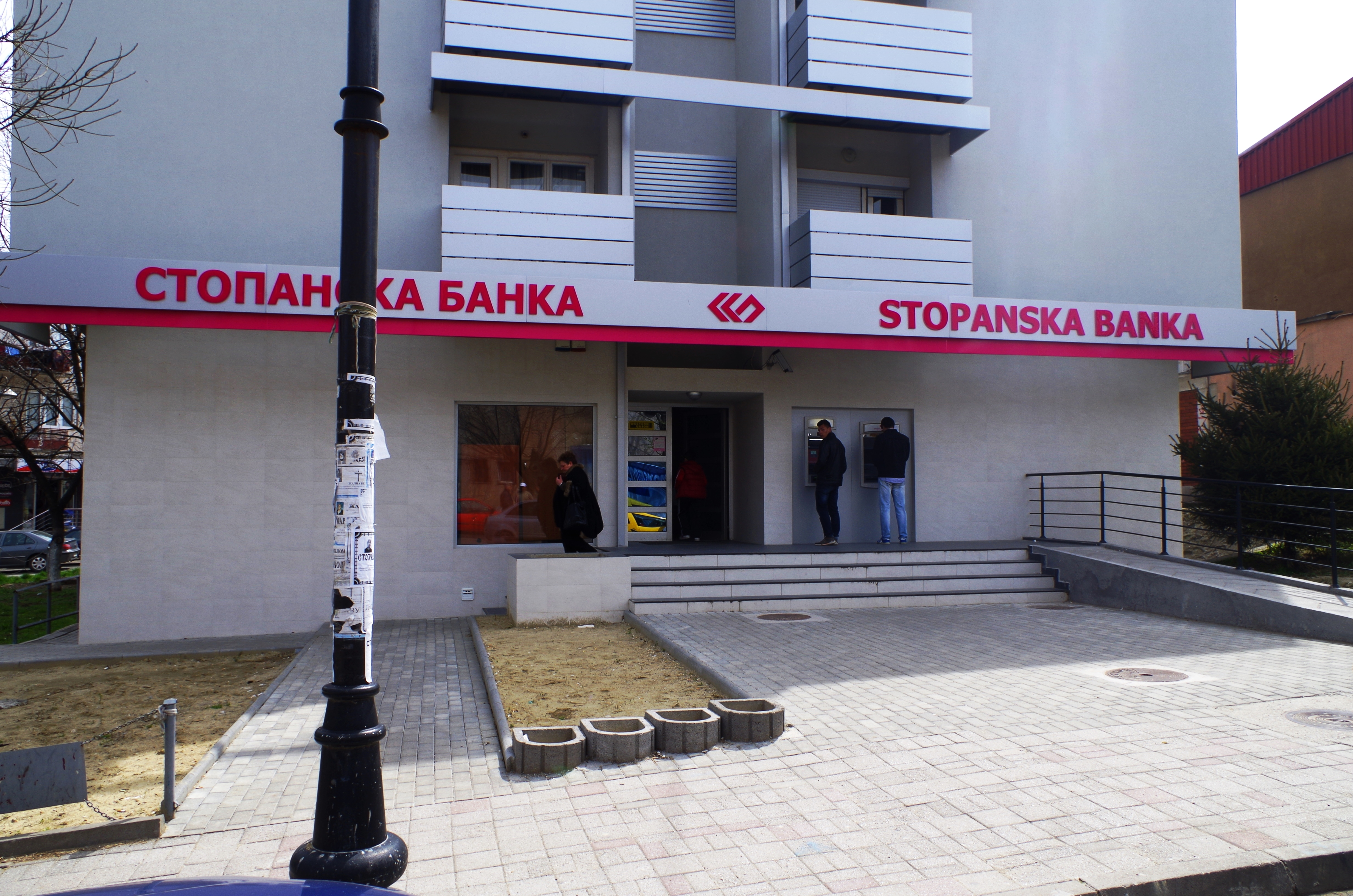 Branch of Stopanska Banka AD Skopje in Negotino